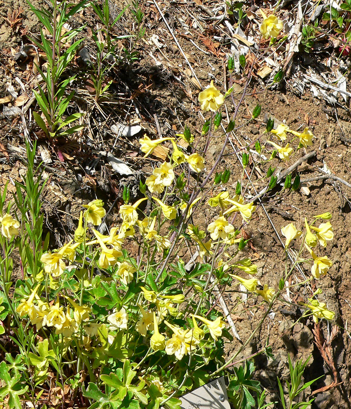 Delphinium luteum at the University of California Botanical Garden, Berkeley, California